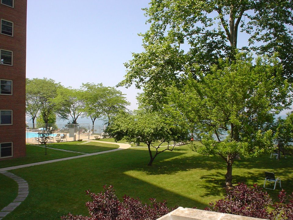 The Berkshire Condominiums Backyard